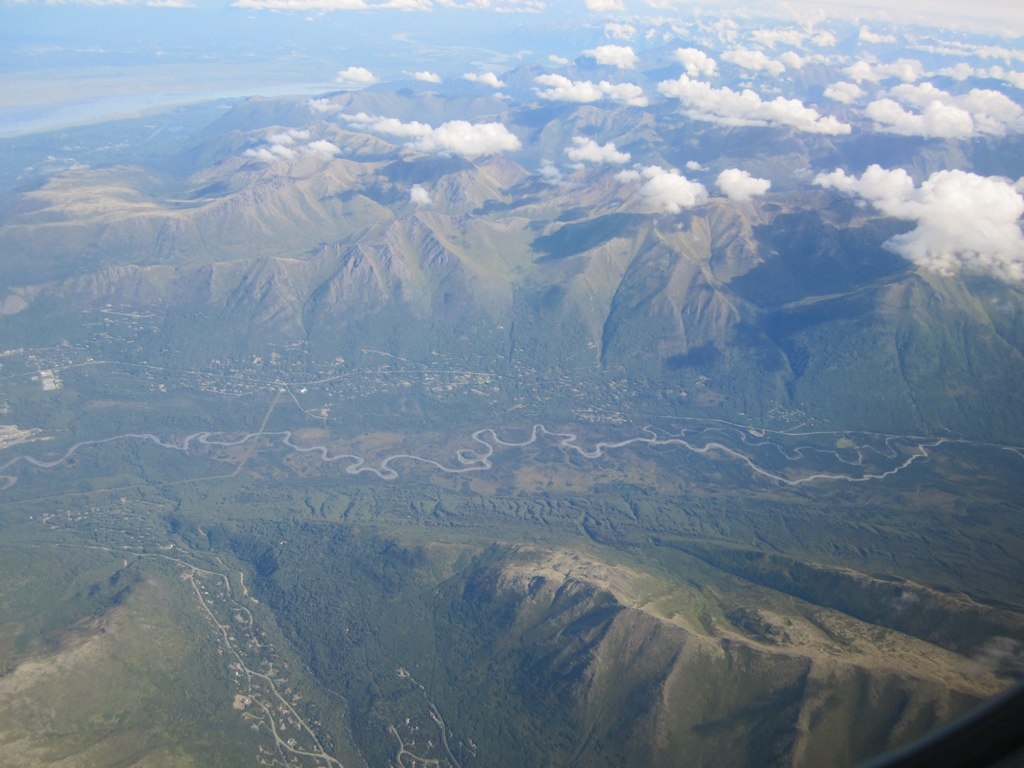 Aerial View of the Eagle River valley in Alaska, showing the Chugach Mountains, the river (of course!) and neighborhoods along Eagle River Road and Hiland Road.